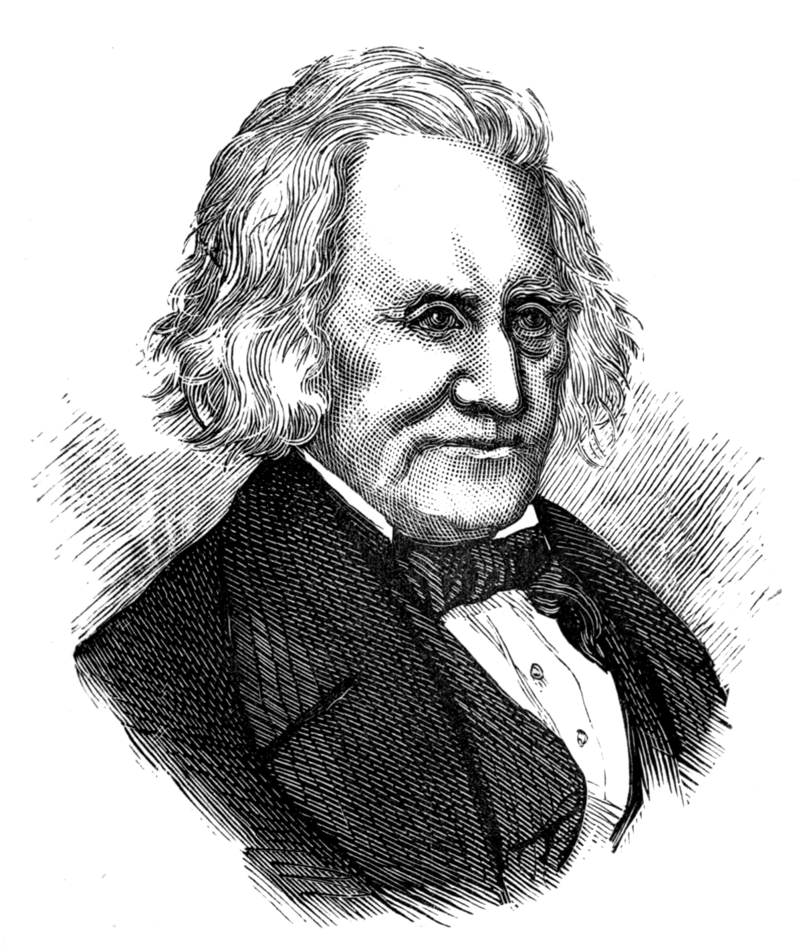 A portrait of Charles Knight.jpg